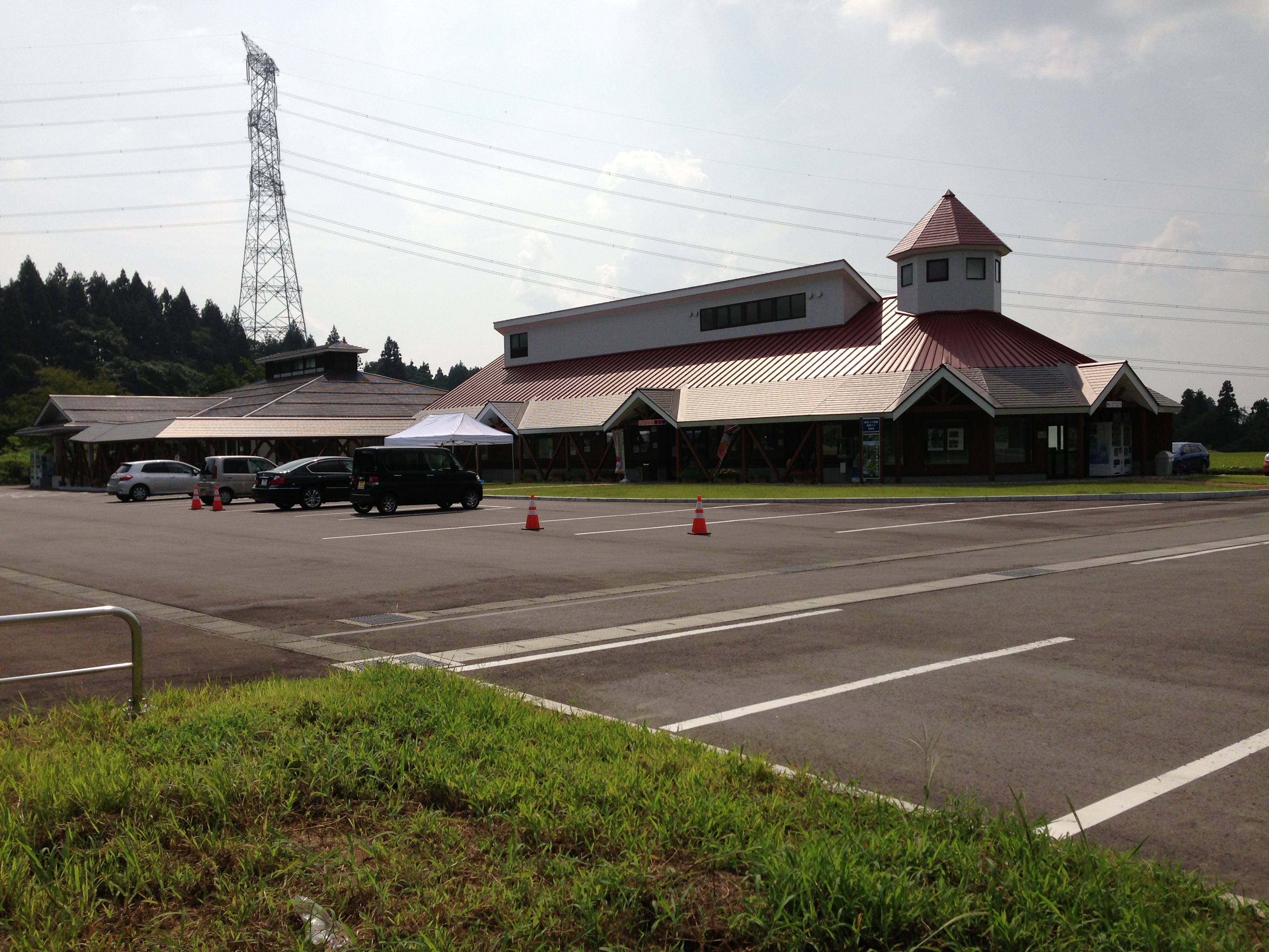 Kangakuno-sato Shitada Roadside Station in Niigata, Japan. Took in August 2013.